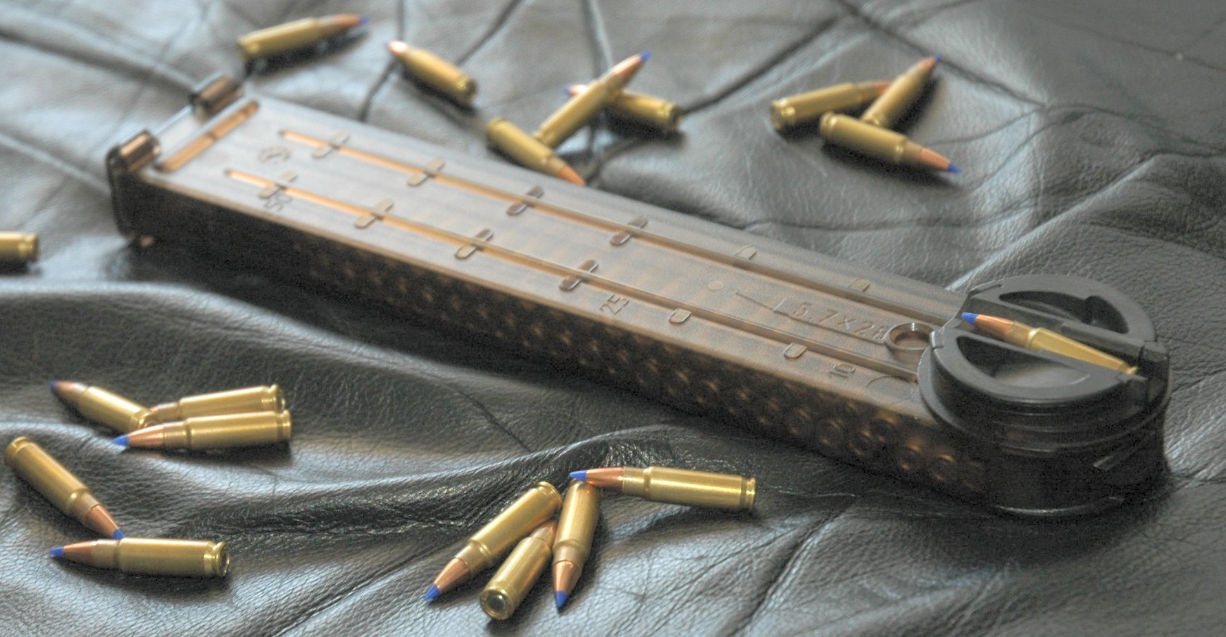 FN P90 magazine loaded with FN 5.7×28mm SS197SR cartridges.